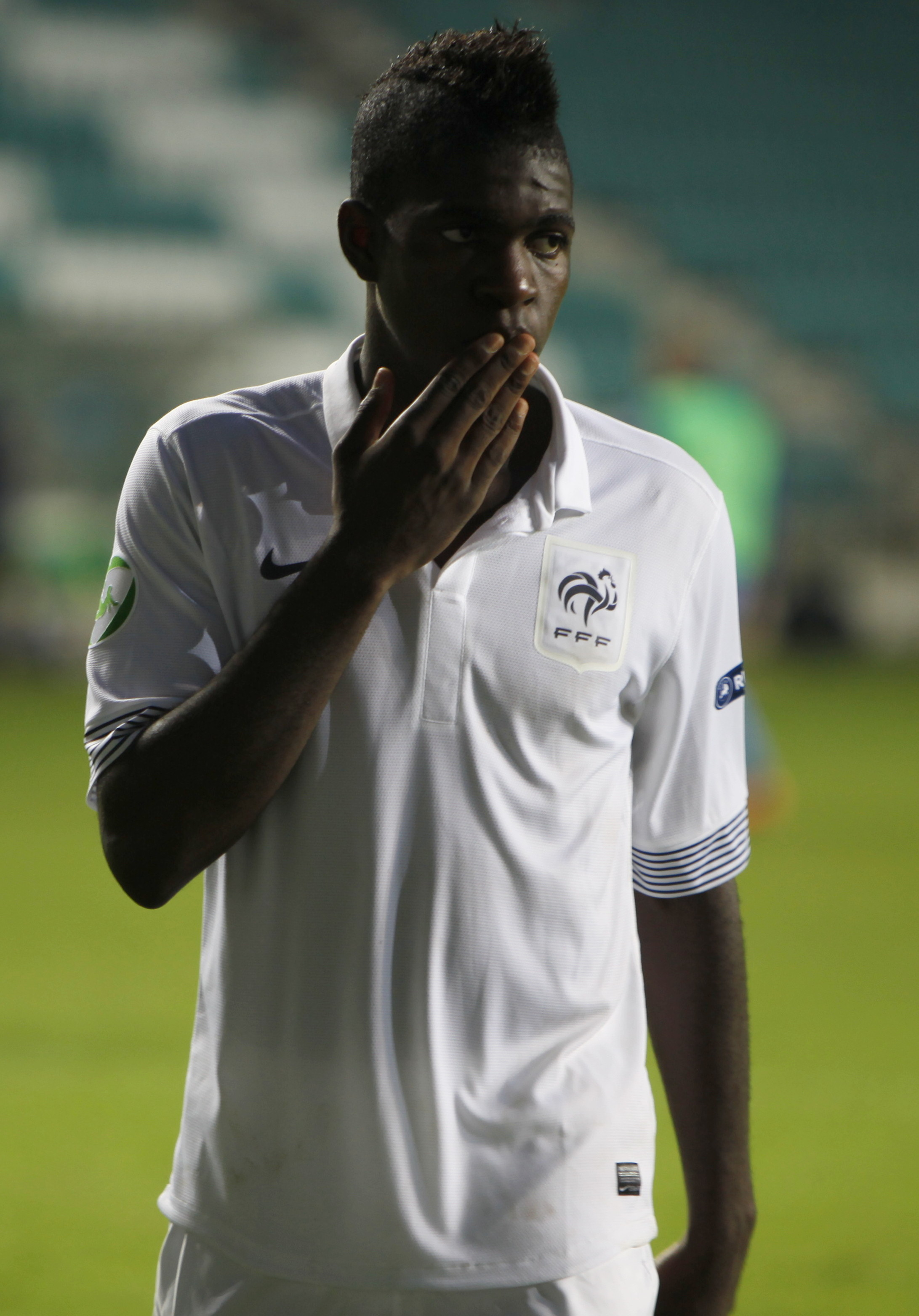 U-19 Spain vs France.